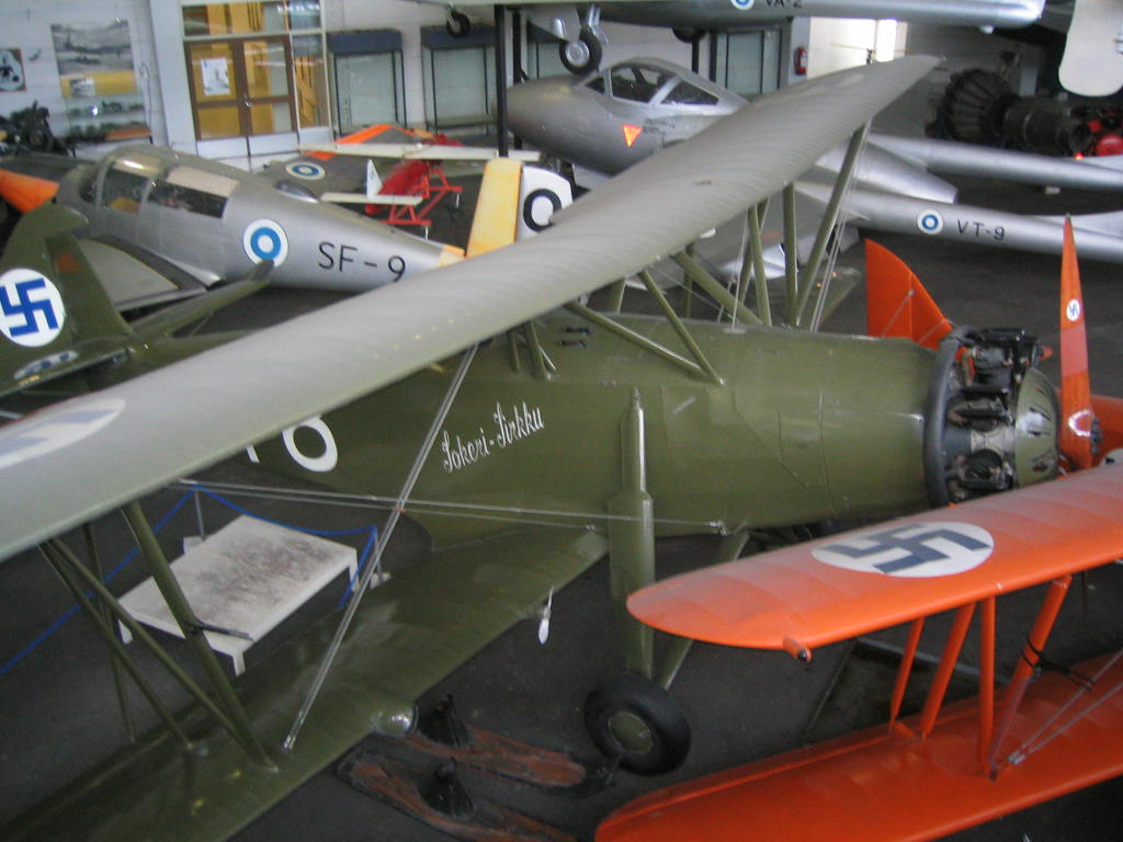 VL Tuisku at the air museum at the Helsinki-Vantaa airfield. Photo by me User:MoRsE MoRsE 23:32, 2 November 2006 (UTC)